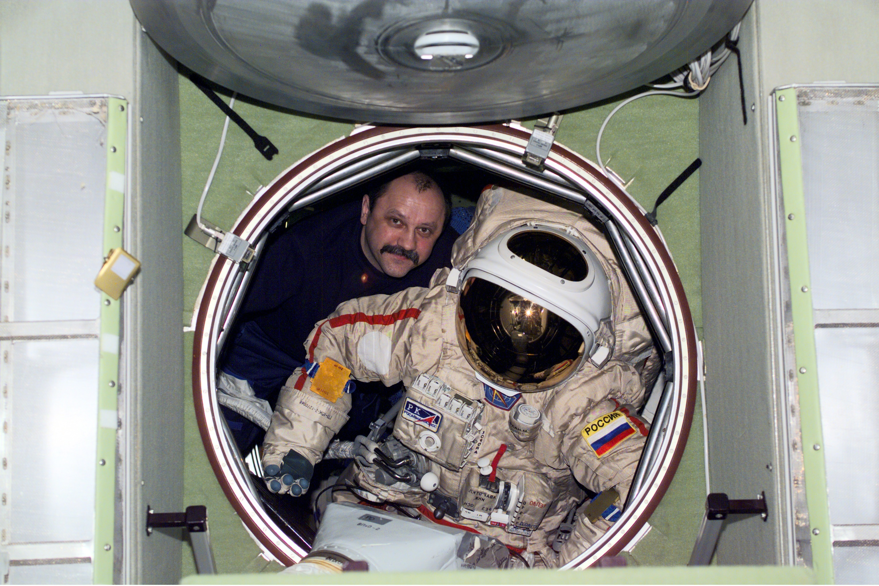 Cosmonaut Yury V. Usachev of Rosaviakosmos, Expedition Two mission commander, moves an Orlan spacesuit through the forward hatch of the Zvezda Service Module. The image was recorded with a digital still camera.